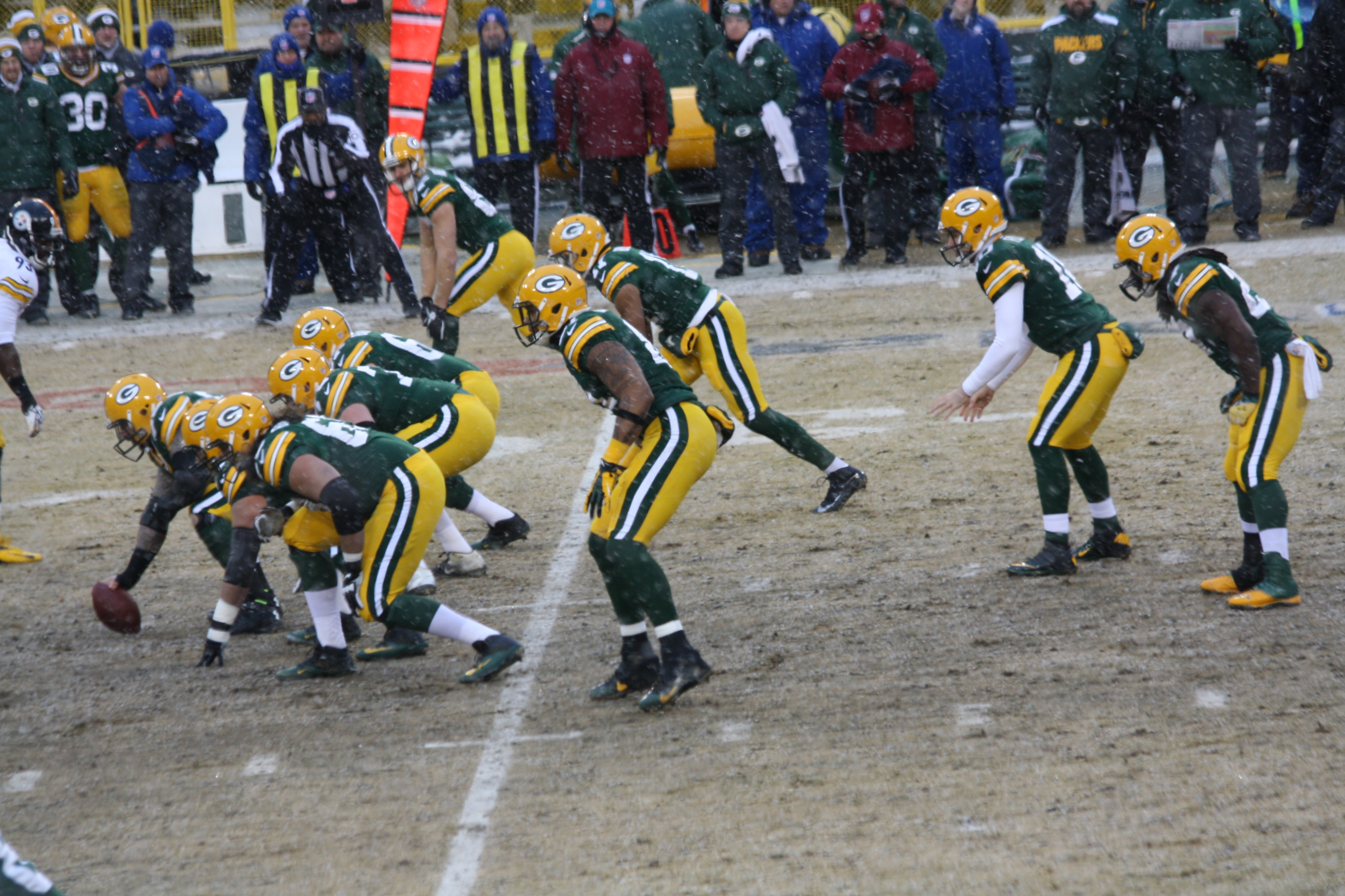 Green Bay Packers offensive players lined up for quarterback Matt Flynn (second from right) against the Pittsburgh Steelers. The rightmost player is #27 Eddie Lacy, the leftmost player is center Evan Dietrich Smith, and the closest player in the middle is #81 Andrew Quarless.